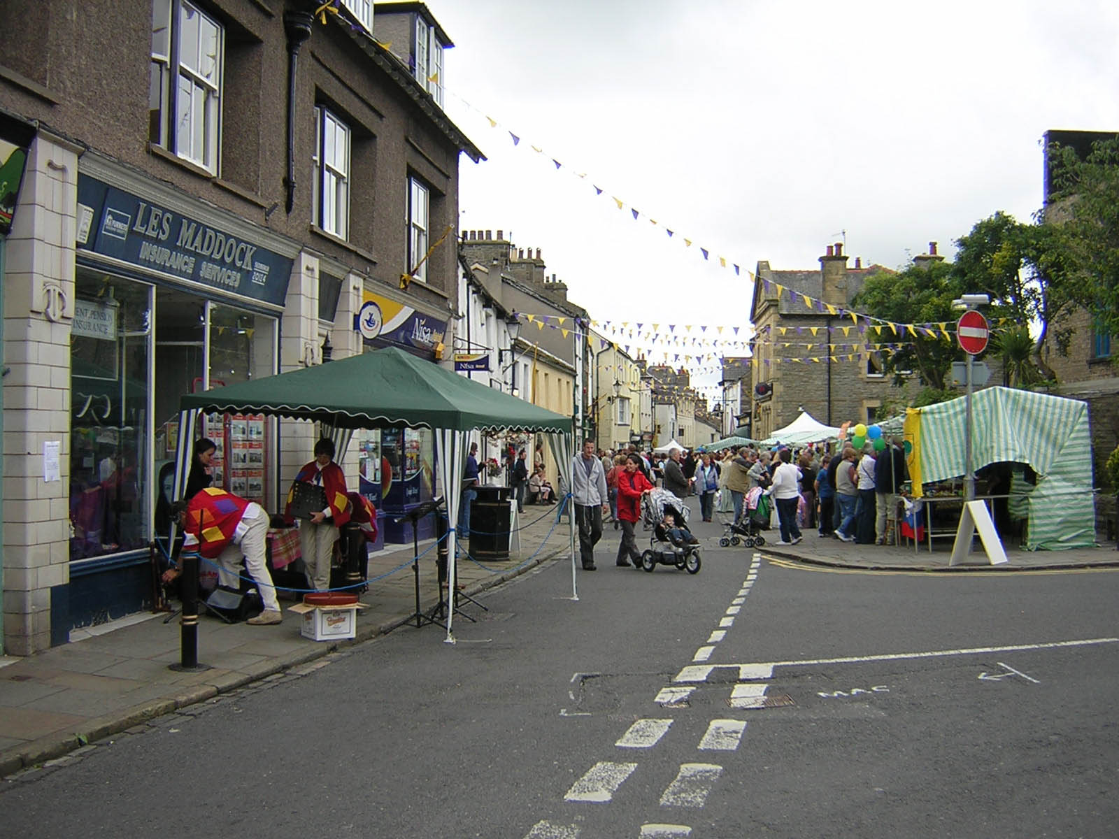 Annual Charter Market in Sedburgh